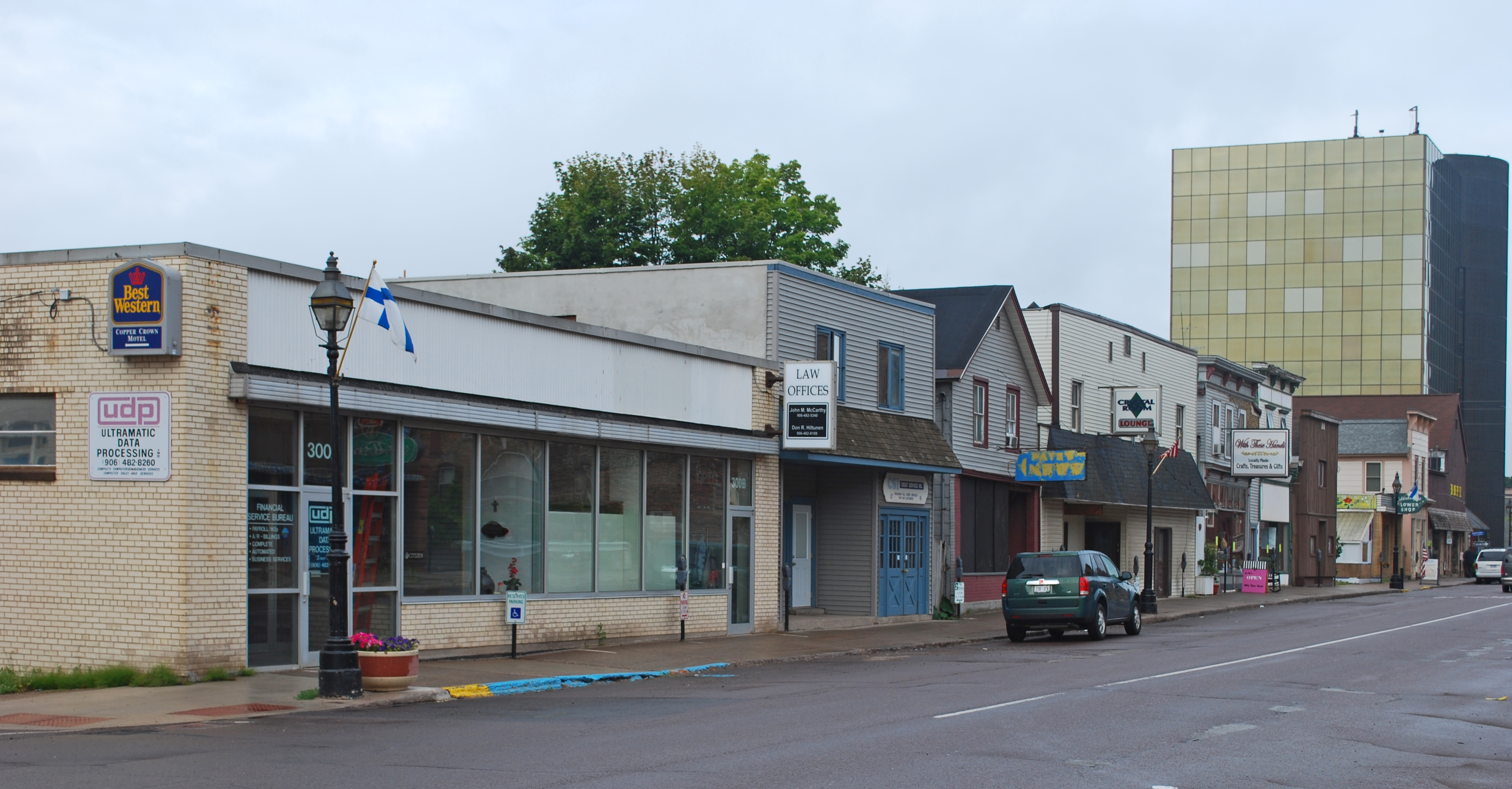 Quincy Street Historic District Hancock MI 300 block South side